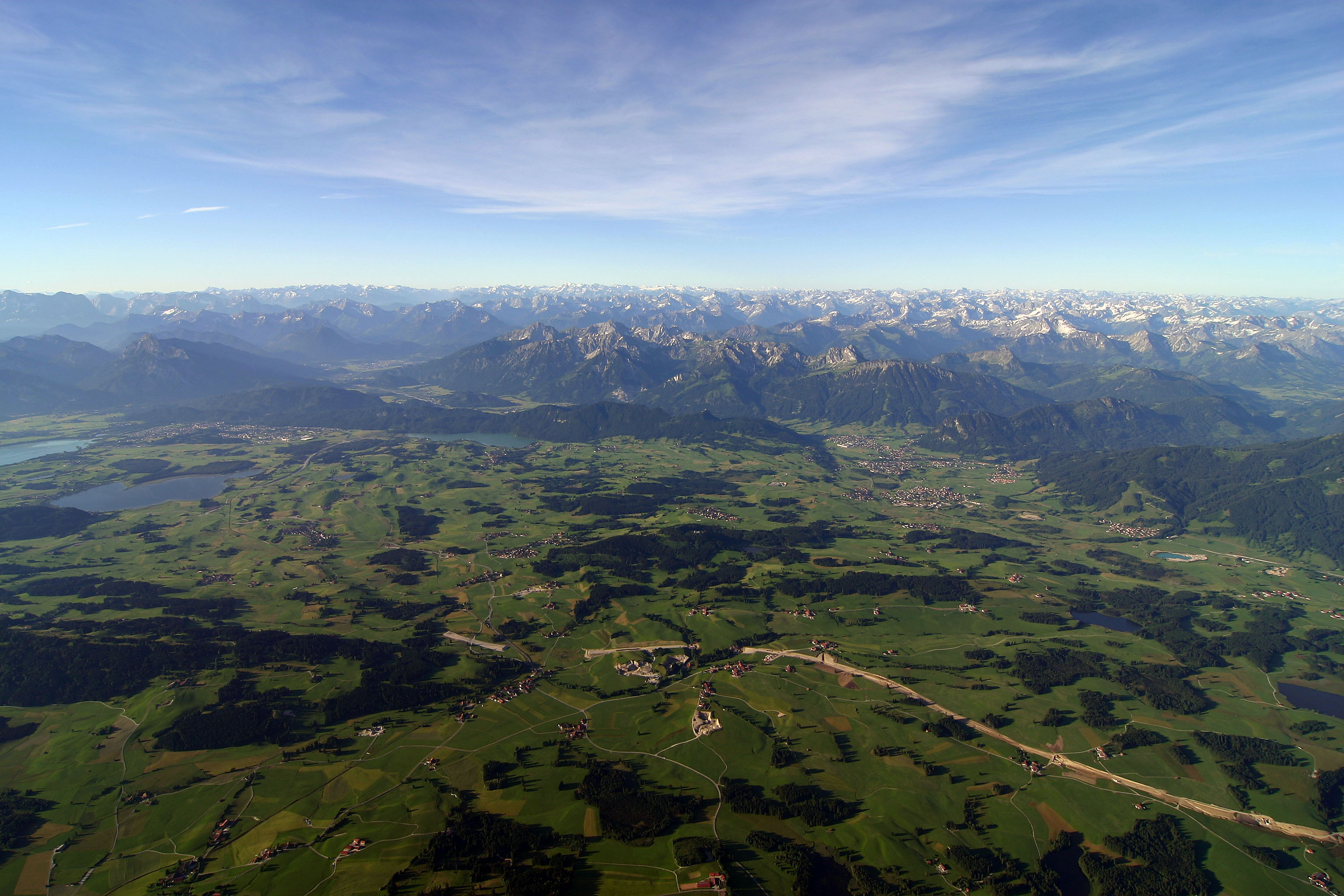 View from a height of 3000 m heading south. Lake Forggensee on the left. In the front you see the construction site of the Bundesautobahn 7. Mountains Tannheimer Berge (middle), Säuling (left), a view to Main chain of the Alps from North.